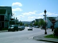 A shot of Downtown Fort Kent